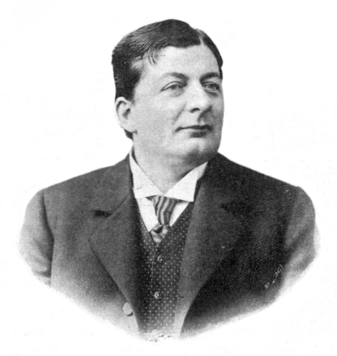 Conrad Dreher (1859–1944), German film and theater actor, character and singing comedian.